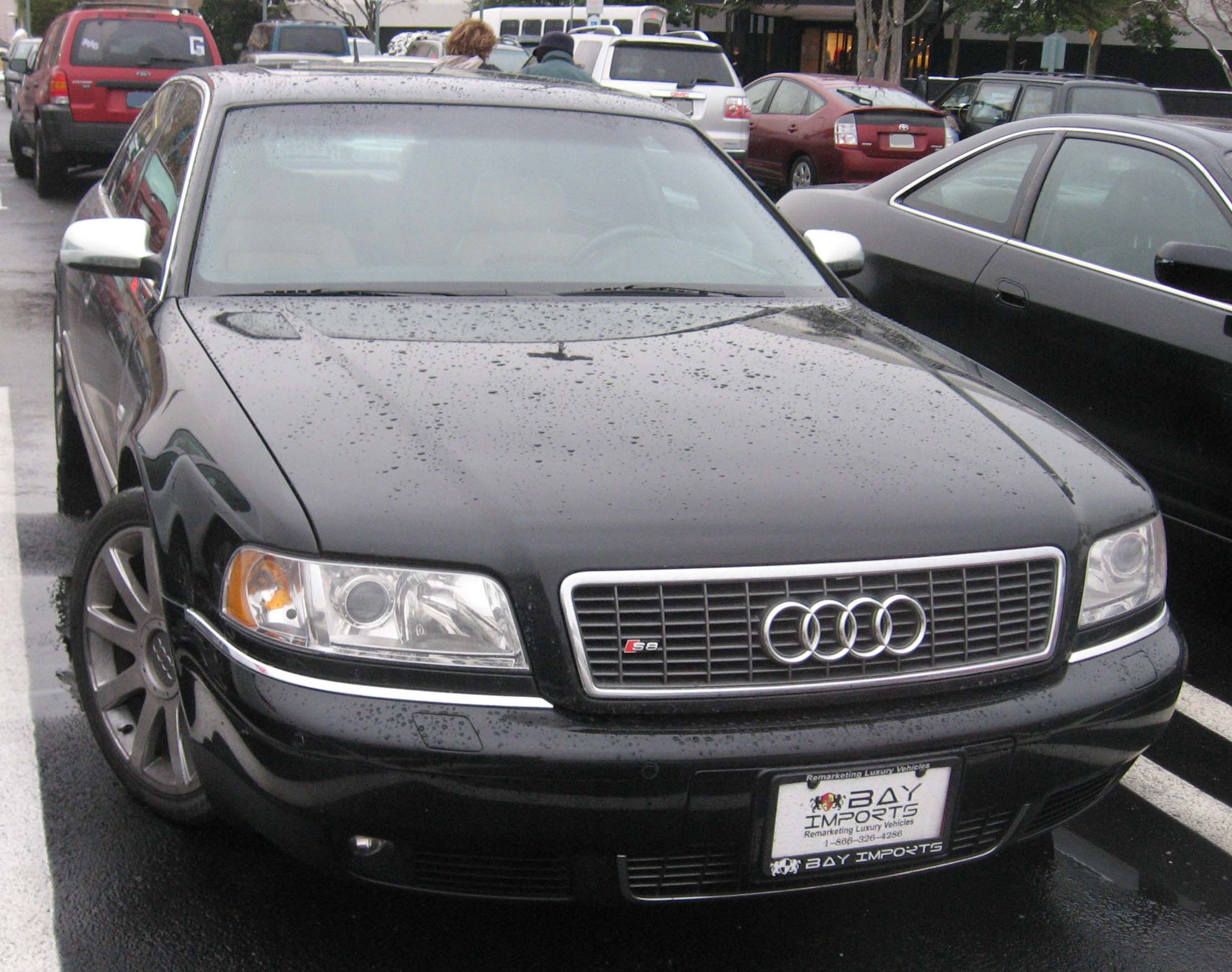 Audi S8 photographed in Rockville, Maryland, USA.